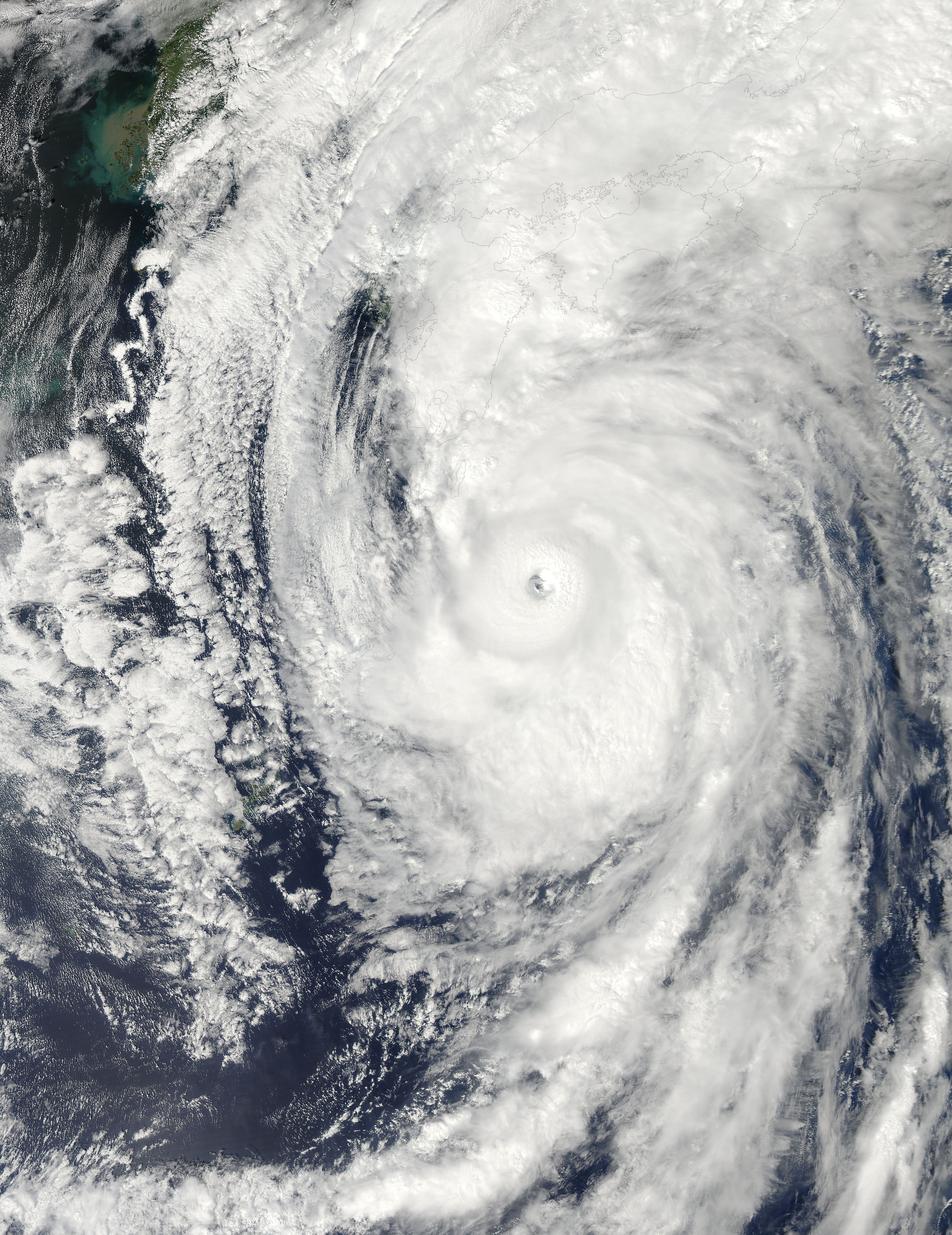 Typhoon Roke approaching Japan on September 20, 2011.